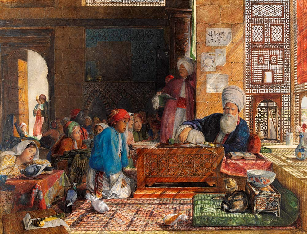 Interior of a school in Cairo